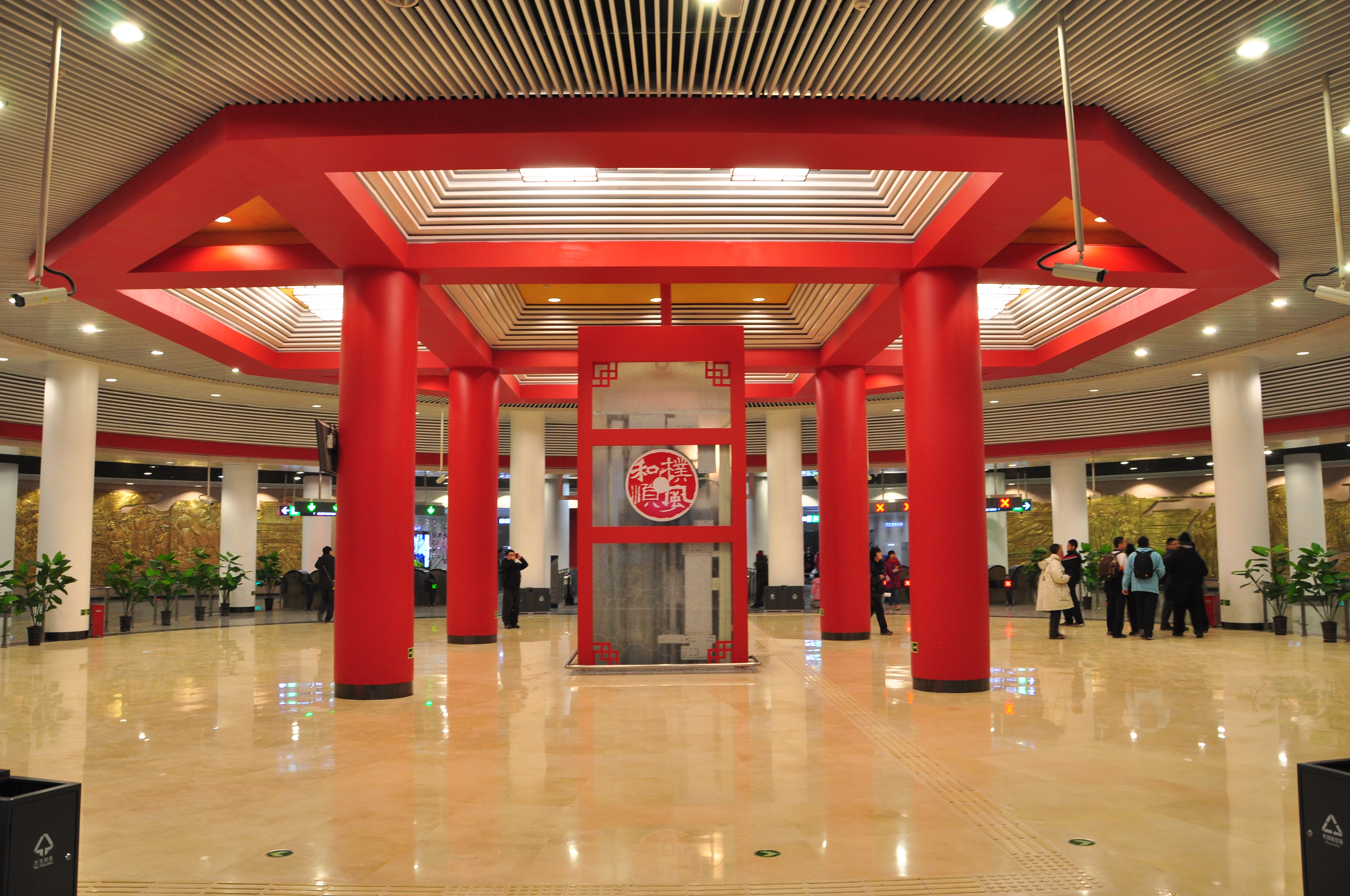 The hall of Shunyi Station, Line 15, Beijing Subway. The hall is circular and used Chinese style decoration. In the center of the station, is the elevator.